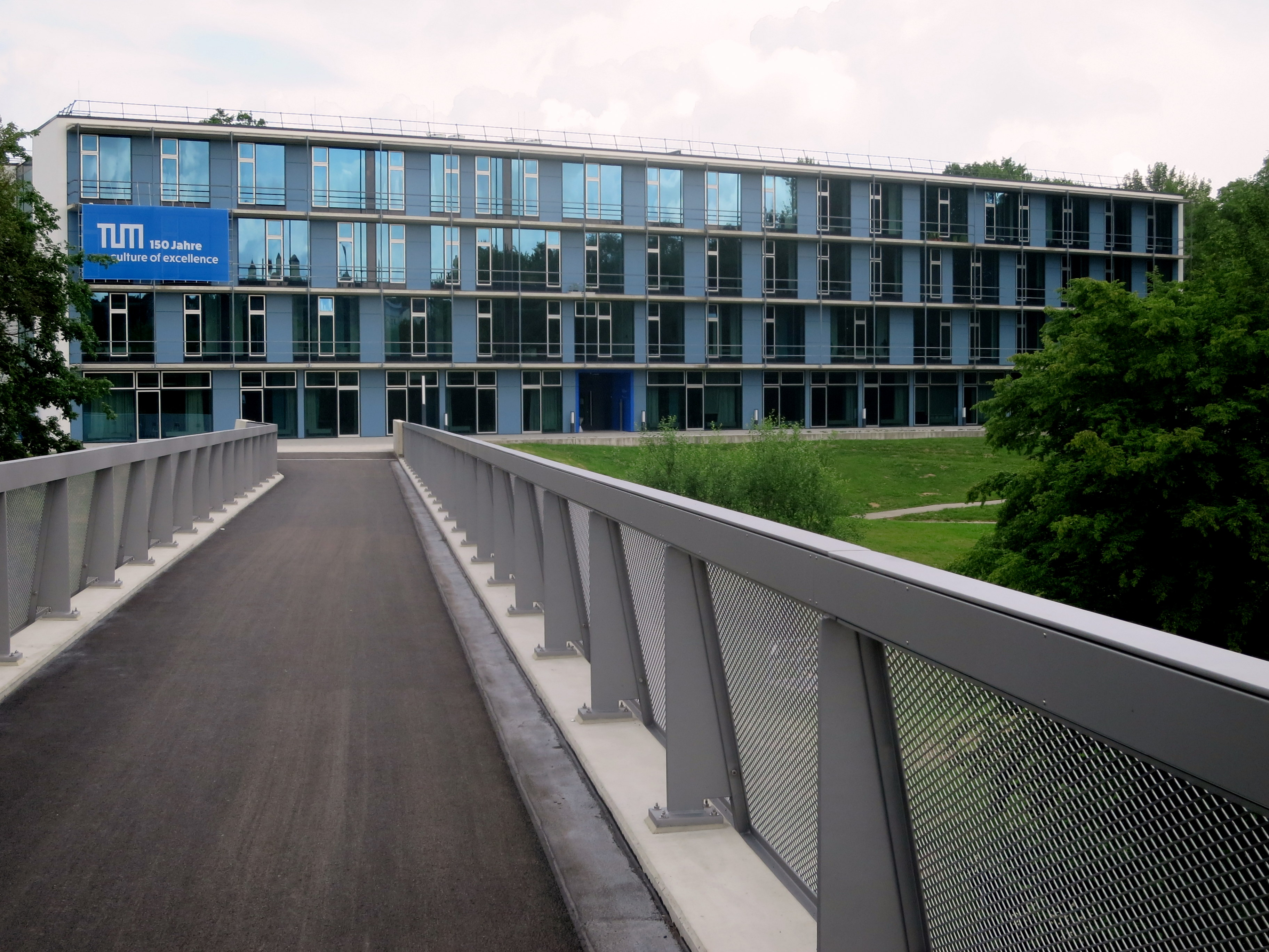 New Campus Bridge 2018